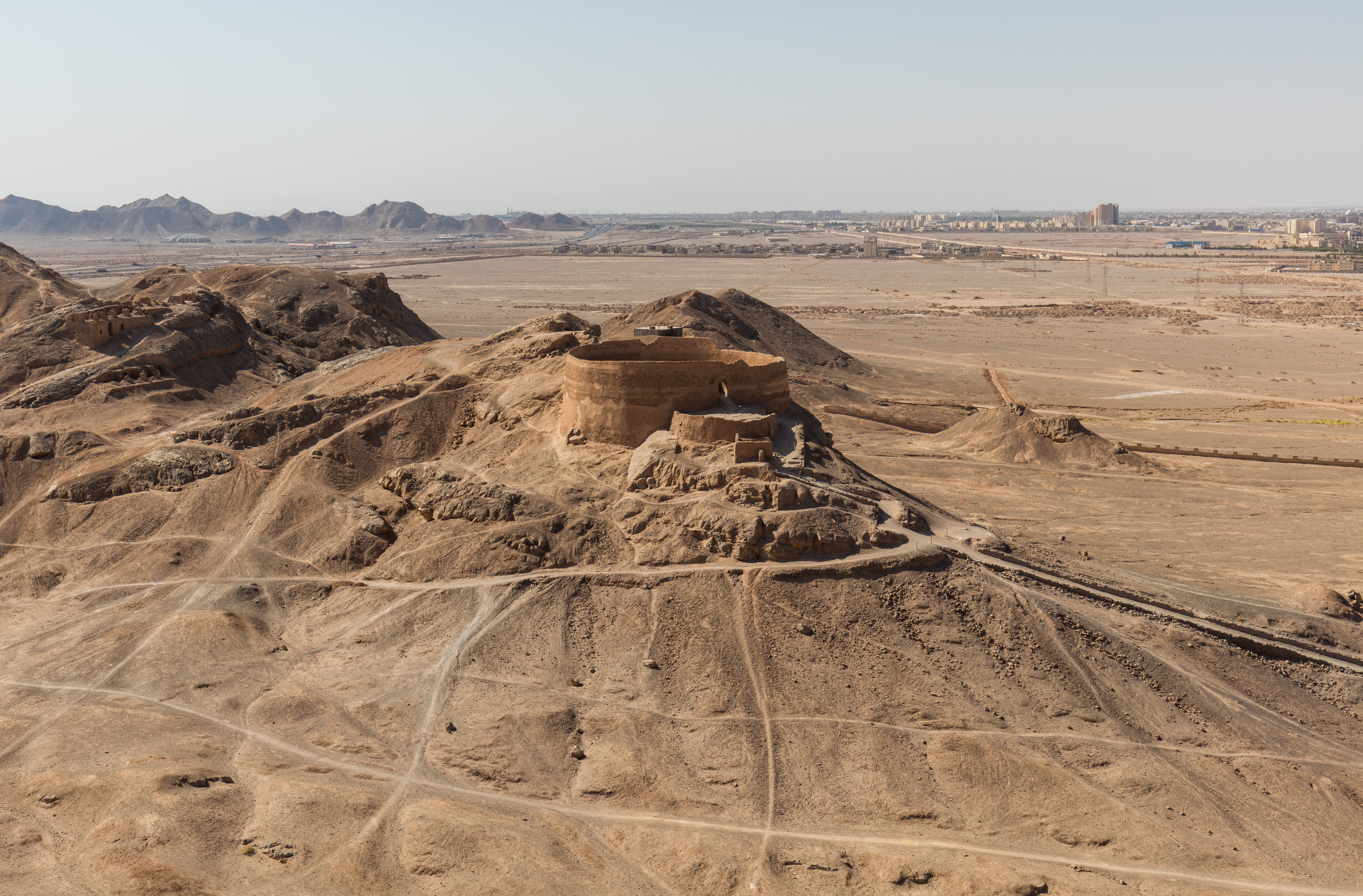 Tower of Silence, Yazd, Iran